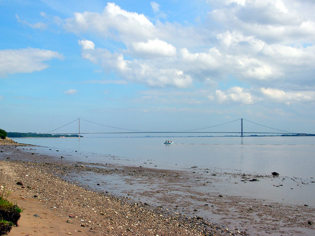 Humber Foreshore, North Ferriby, East Riding of Yorkshire, England.Picture taken near Red Cliff looking downstream towards the Humber bridge.